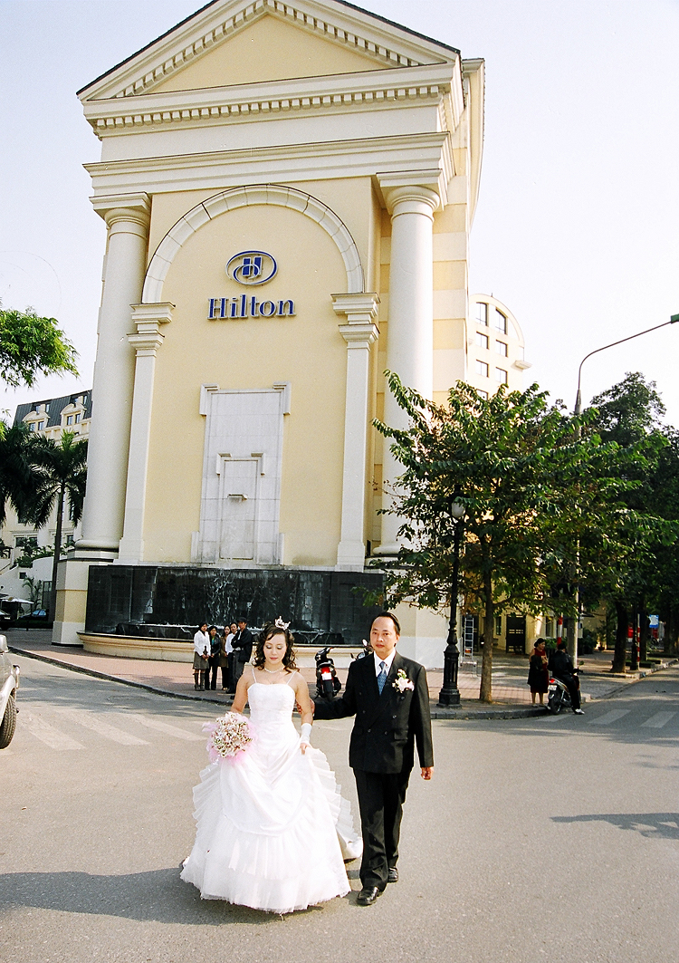 Bride and bridegroom at outside of Hilton Hanoi Opera hotel